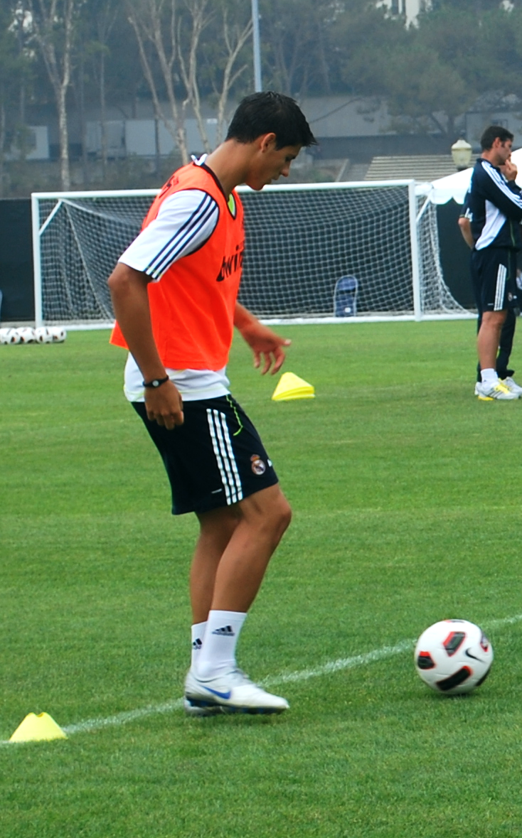 Álvaro Morata training with Real Madrid in UCLA (Los Angeles, CA).